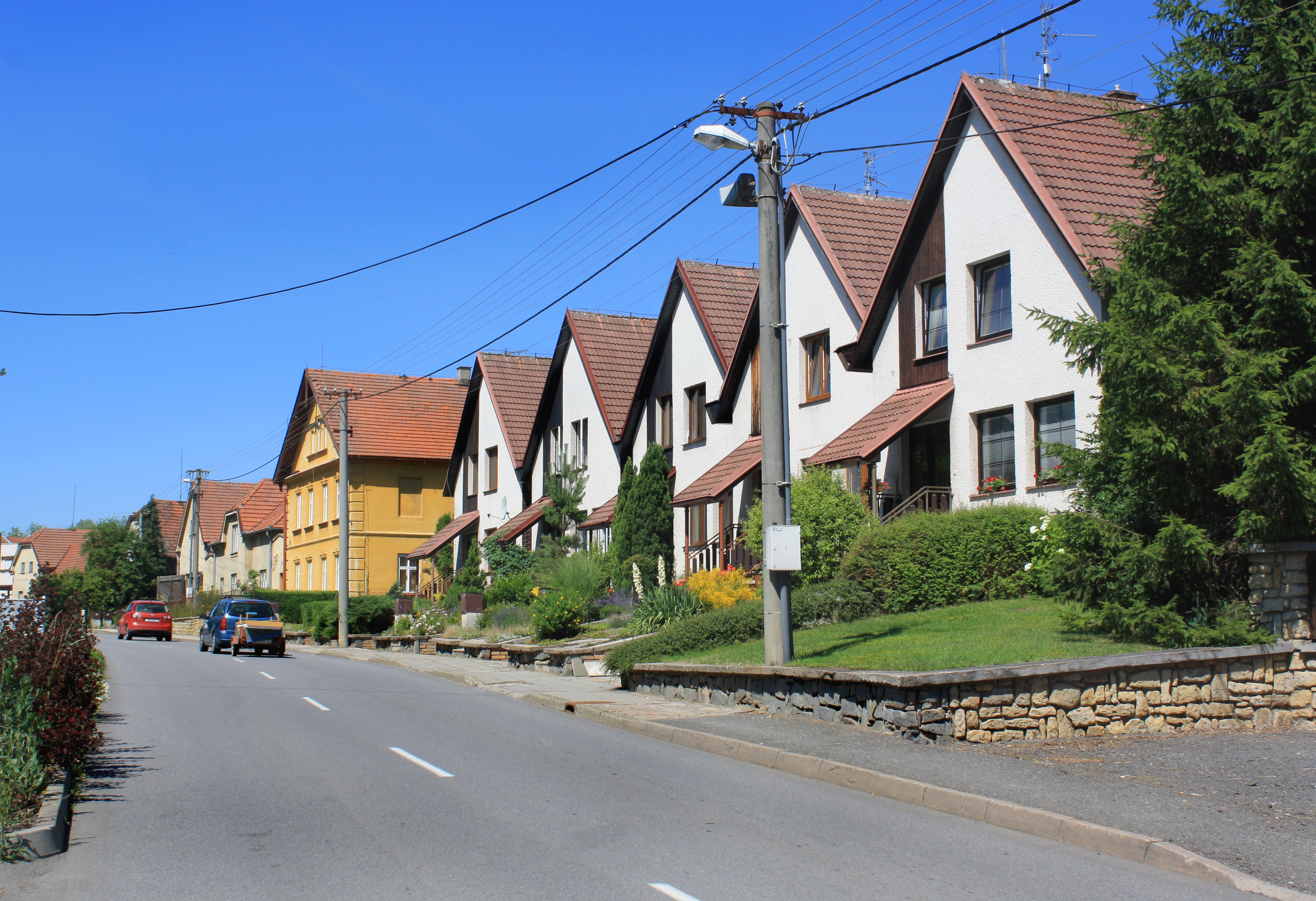 South part of Osík, Czech Republic